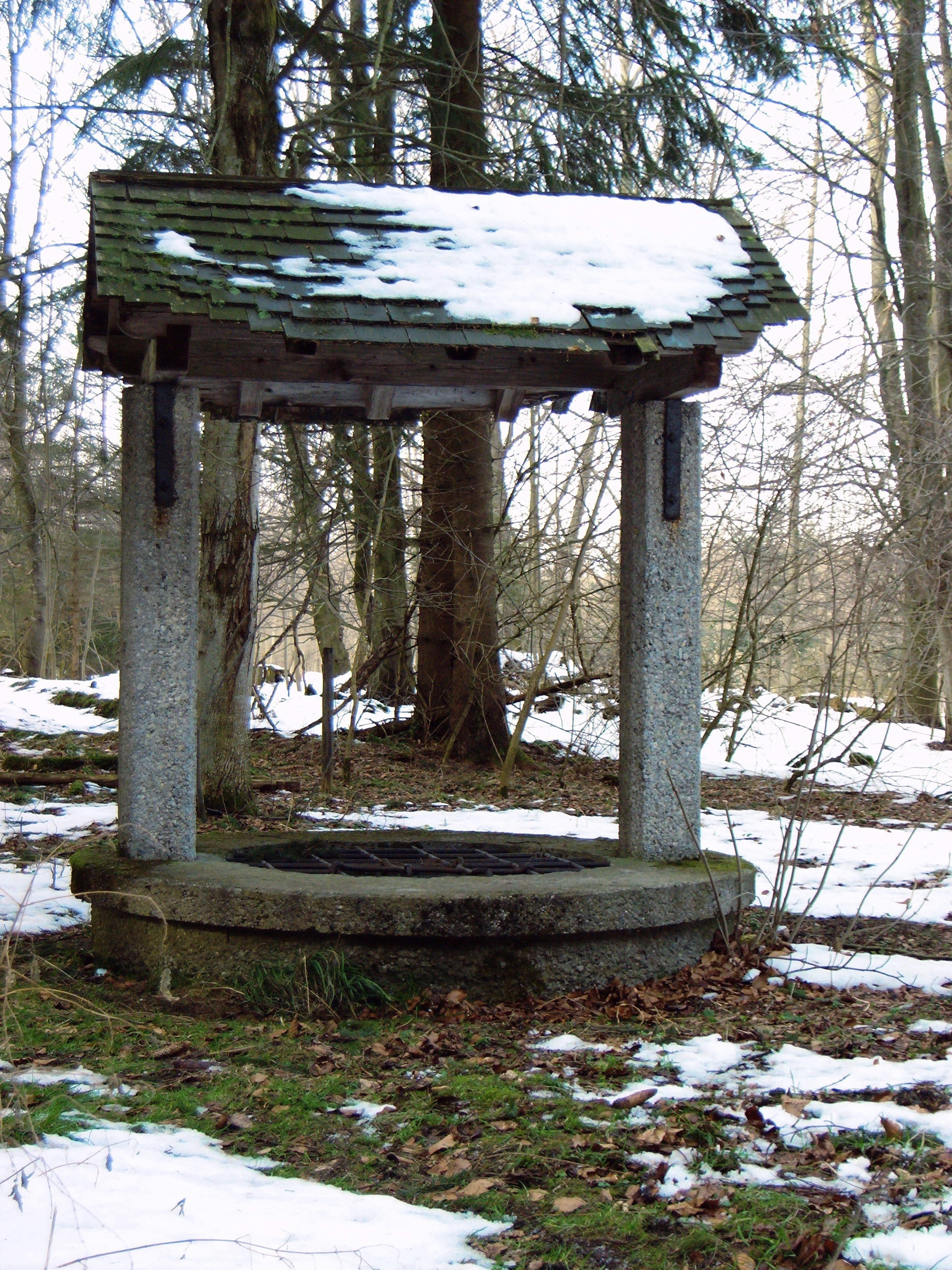 Water-Well of Abandoned village Haberatshofen, Germany